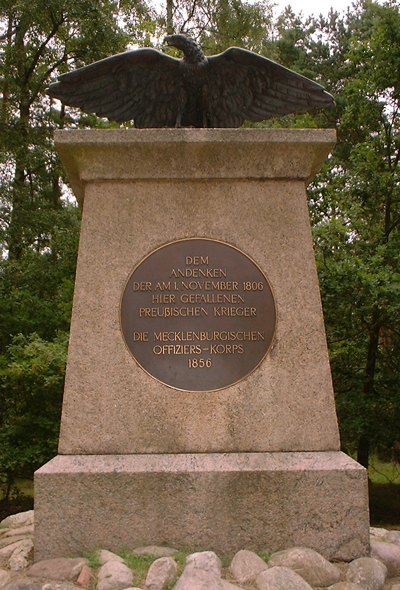 Memorial near Silz-Nossentin in Mecklenburg-Western Pomerania, Germany